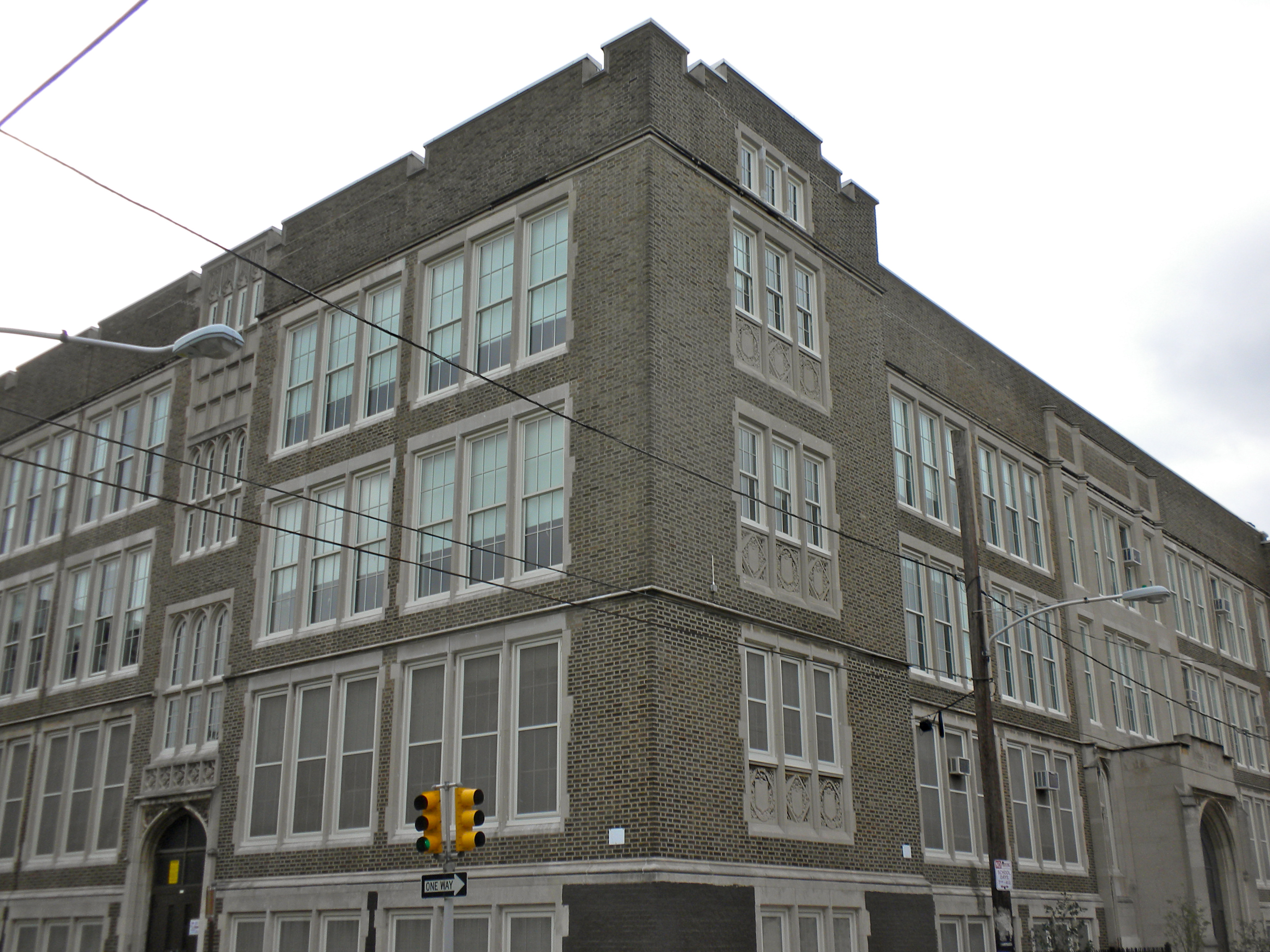 James R. Ludlow School in Philadelphia, on the NRHP since November 18, 1988. At 550 West Master St. in the Yorktown neighborhood of North Philly.